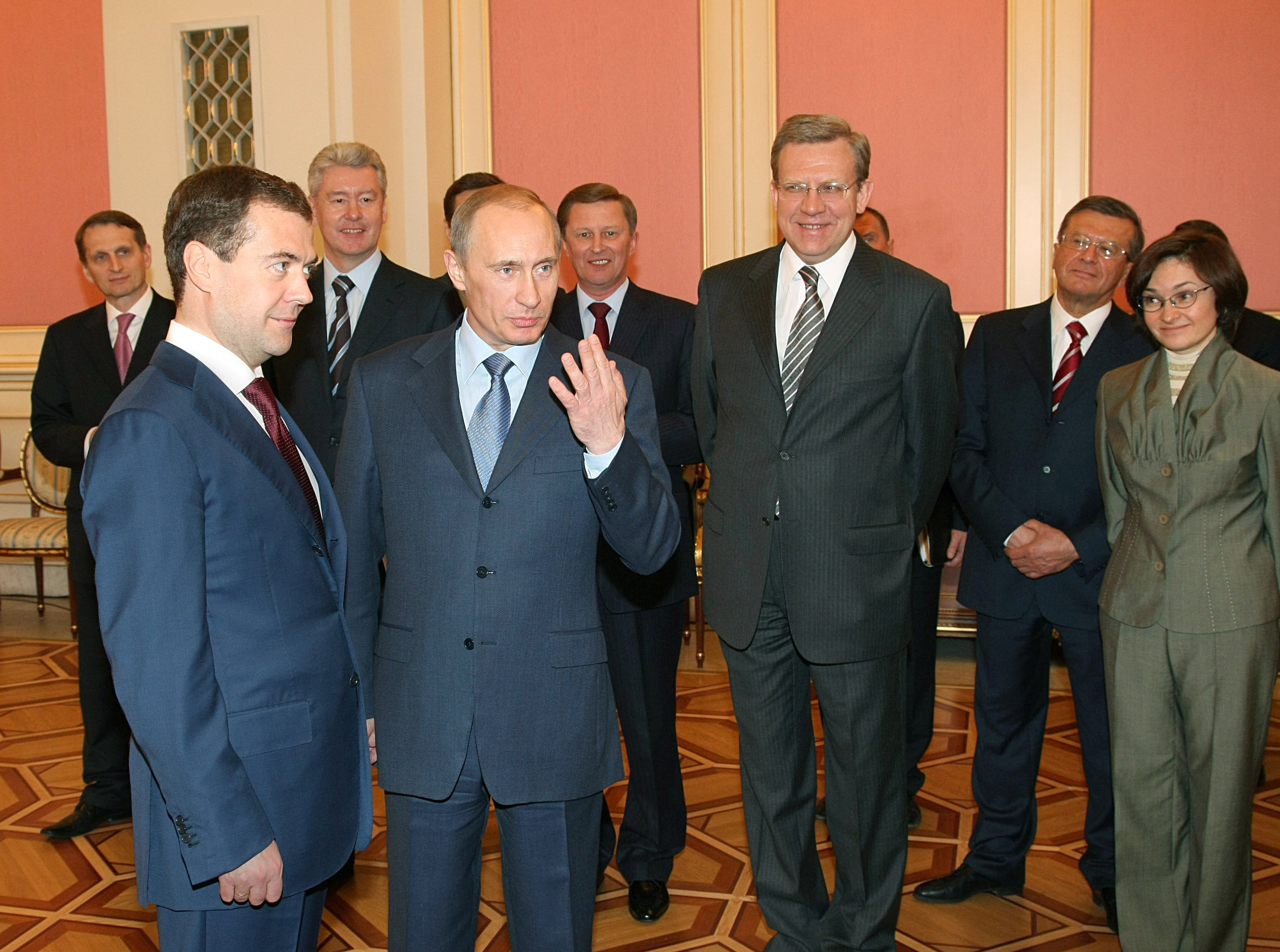 GOVERNMENT HOUSE, MOSCOW. With the members of the new Government Cabinet.